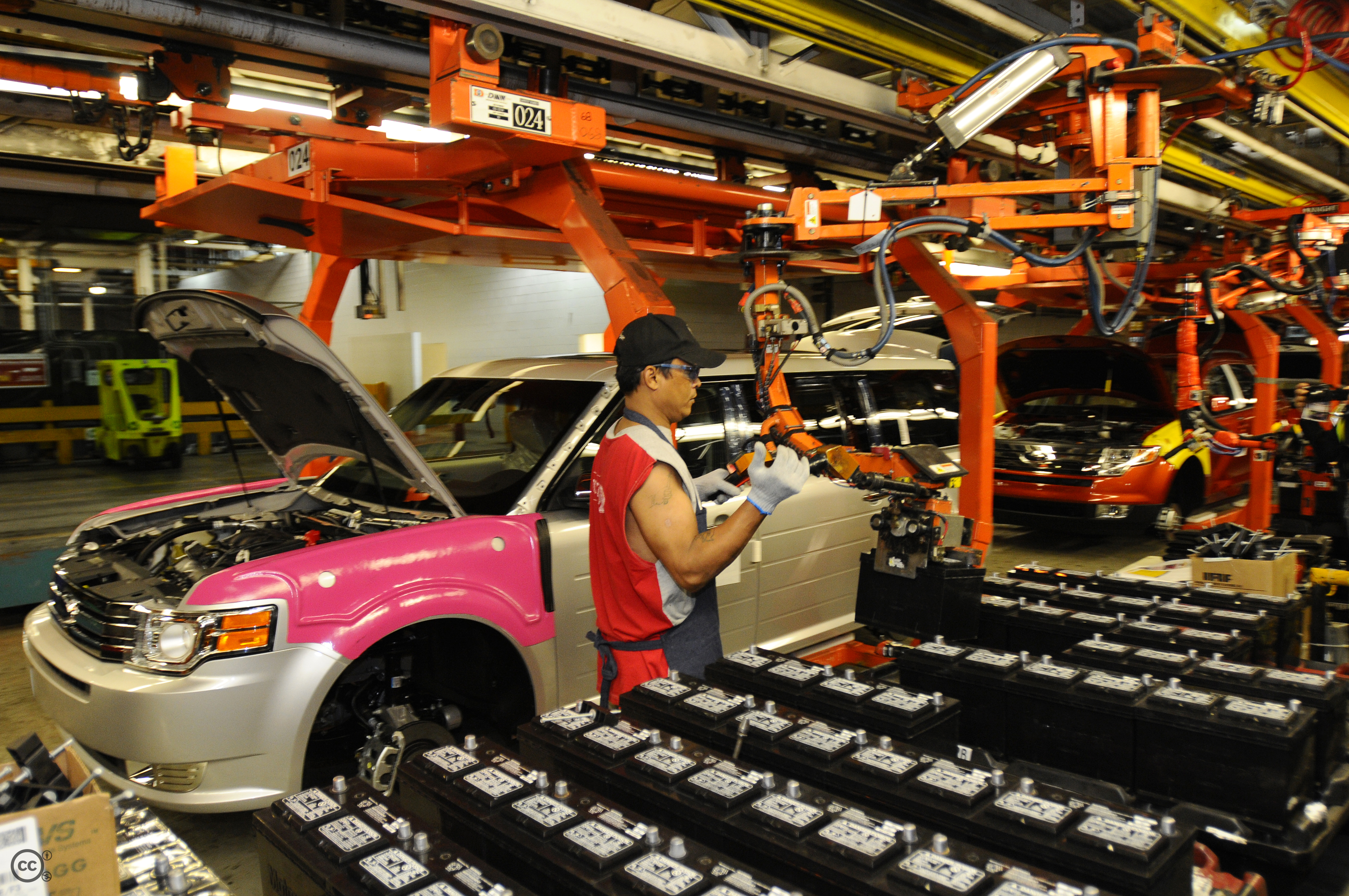 OAKVILLE, ONTARIO, CANADA, June 3, 2008 - Ford Motor Company employee Nick Aphayvong helps build the all new 2009 Ford Flex at the Oakville Assembly Plant. Ford marked the official launch of production during an employee celebration and plant tour. Photo by: Sam VarnHagen/Ford Motor Co. (06/03/2008)